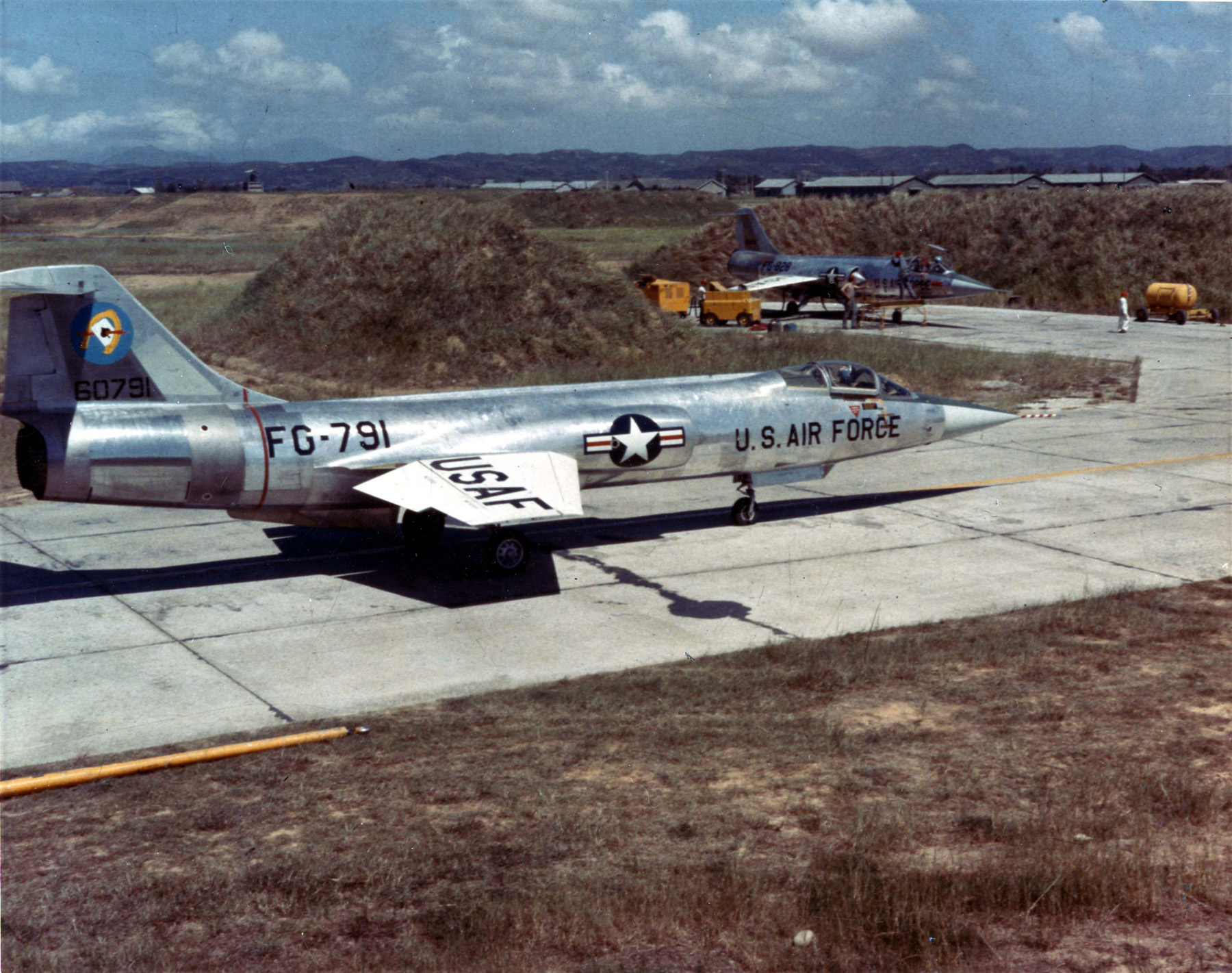 A U.S. Air Force Lockheed F-104A-20-LO Starfighter (s/n 56-0791) of the 83rd Fighter Interceptor Squadron at Taoyuan Air Base, Taiwan, on 15 September 1958, during the Quemoy Crisis (Operation "Jonah Able").